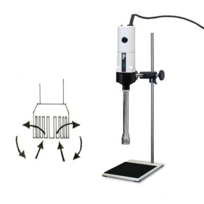 PRO Scientific mechanical homogenizer disperser with the depiction of rotor-stator homogenization method